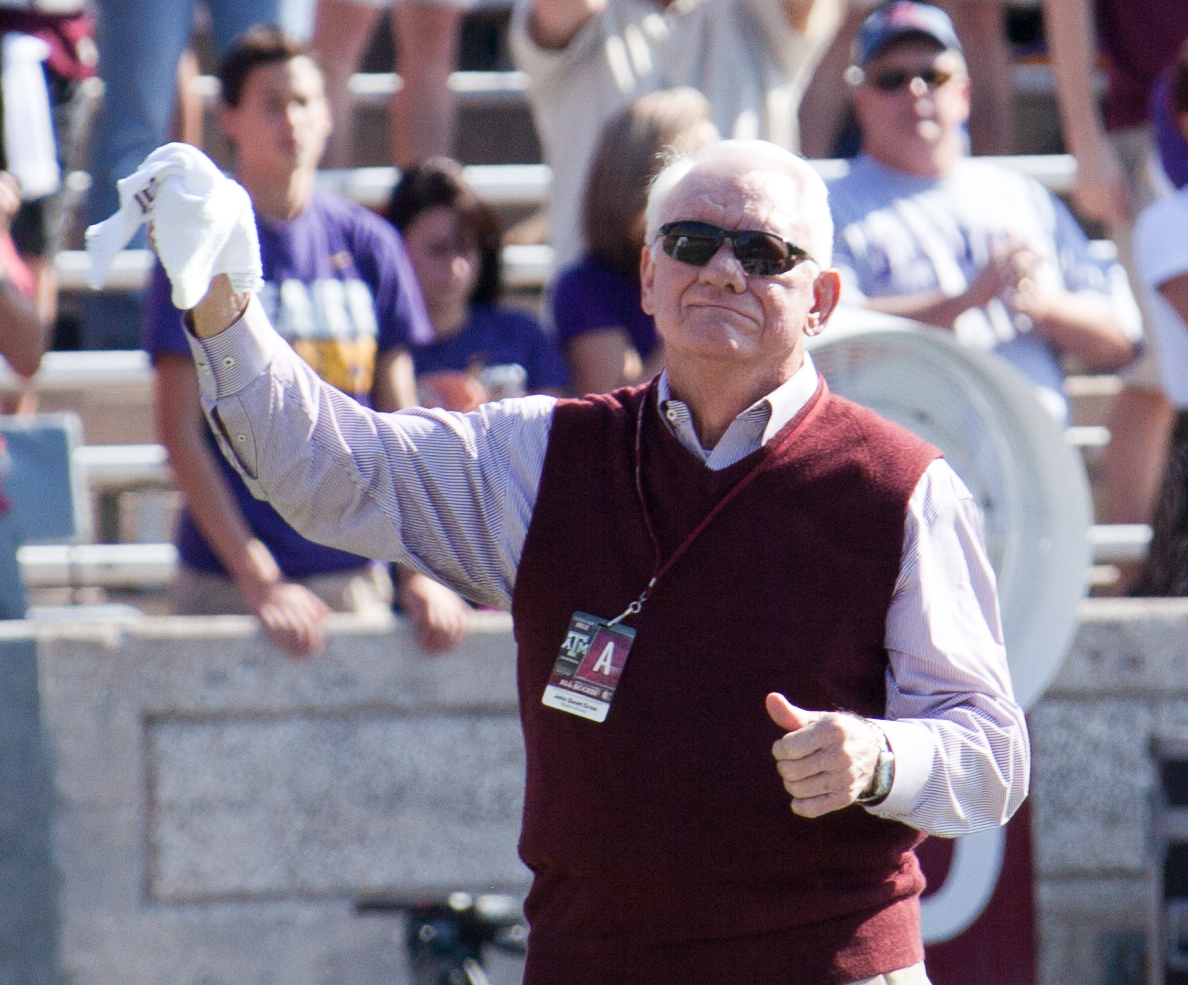 John David Crow acknowledged at a Texas A&M football game in Kyle Field, College Station Texas on October 20, 2012